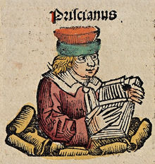 Woodcut from the Nuremberg Chronicle